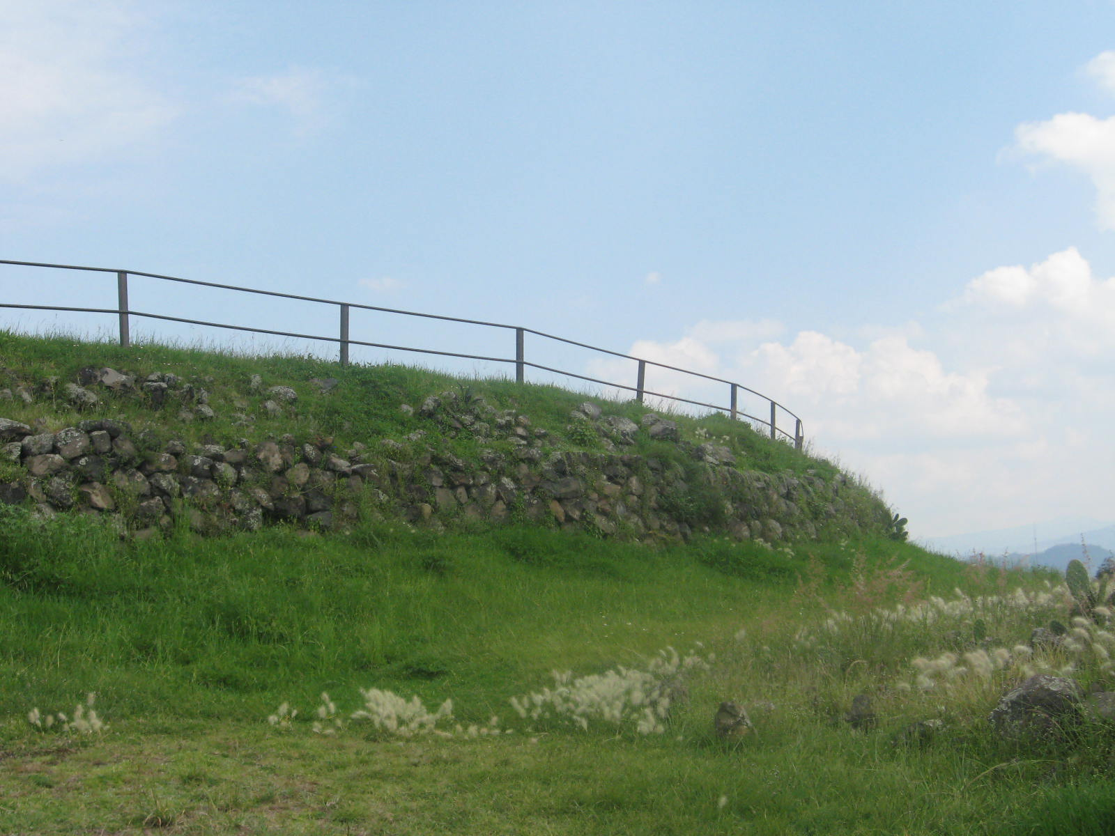 View of top ring of Cuicuilco's main circular pyramid located in the Tlalpan borough of Mexico City